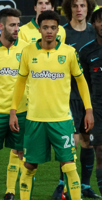 FA Cup 3rd round 6.1.18